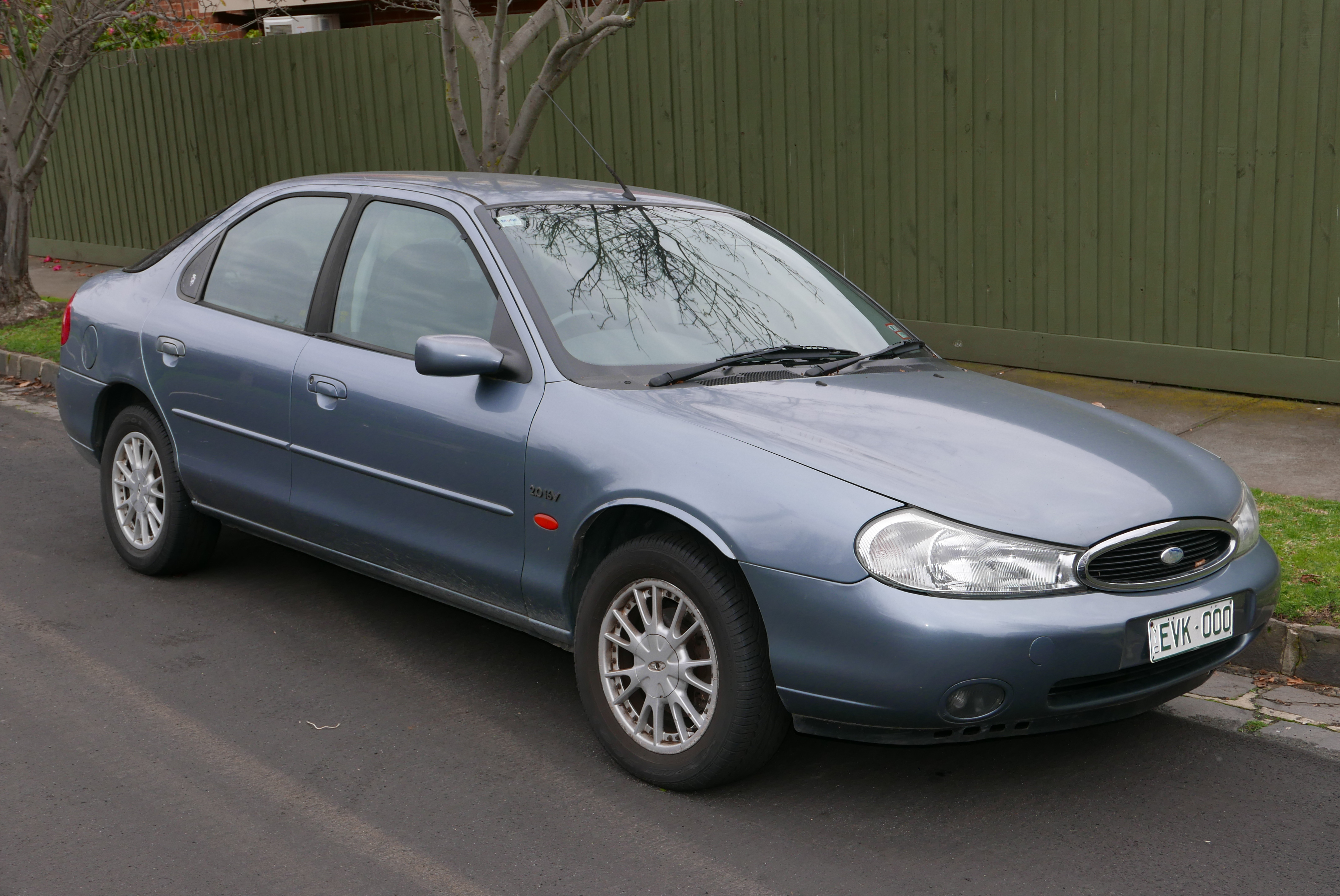 2000 Ford Mondeo (HE) Ghia hatchback. Photographed in Kew, Victoria, Australia. Vehicle registration enquiry resultsJurisdictionVictoriaRegistrationEVK000Chassis codeWF0AXXGBBAYR19438Engine codeYR19438Compliance date2000-04Year of manufacture2000